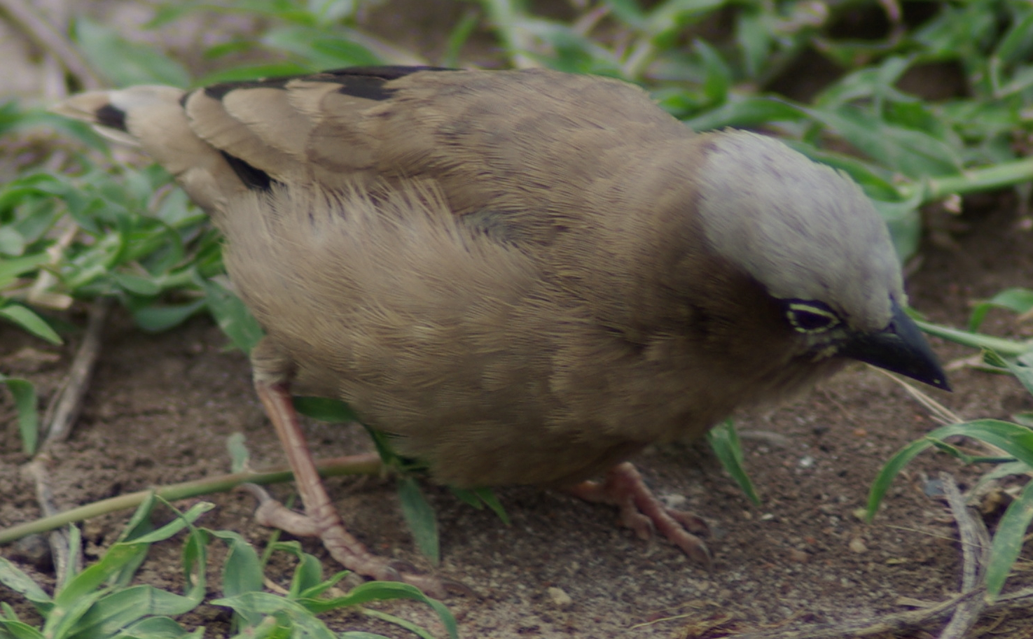 Adult Grey-capped Social Weaver, Pseudonigrita arnaudi arnaudi, Sweetwaters Game Reserve, Kenya. The time stamp is 10 hours too early.